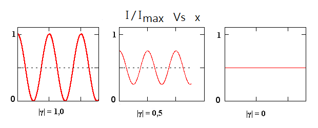 This captioned drawing shows the relationship between interference visibility and interference pattern.